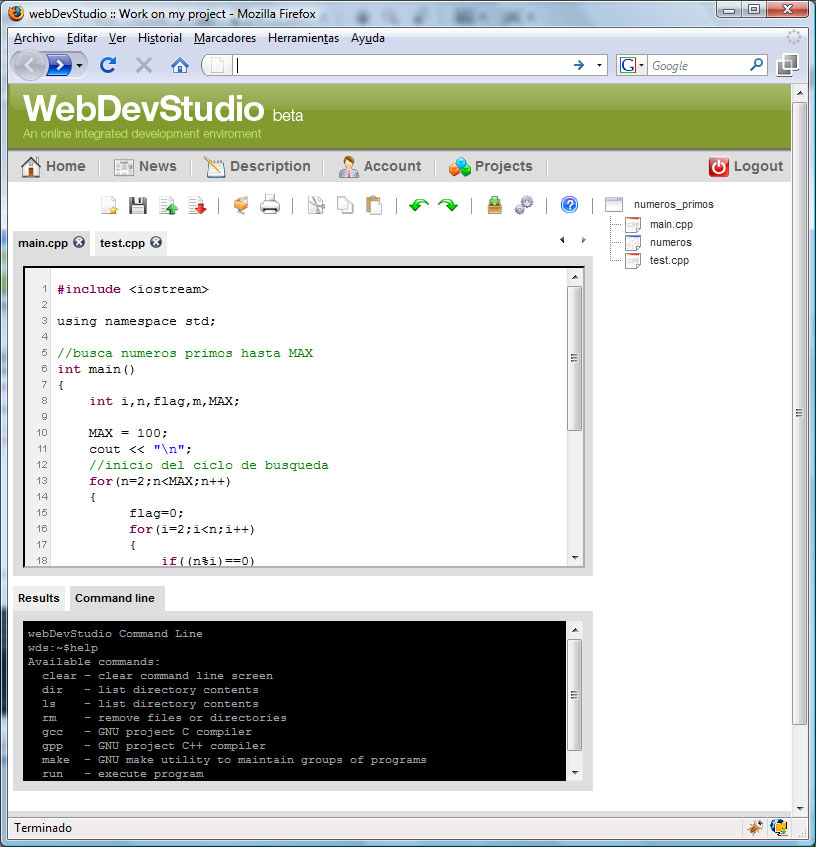 Application screenshot